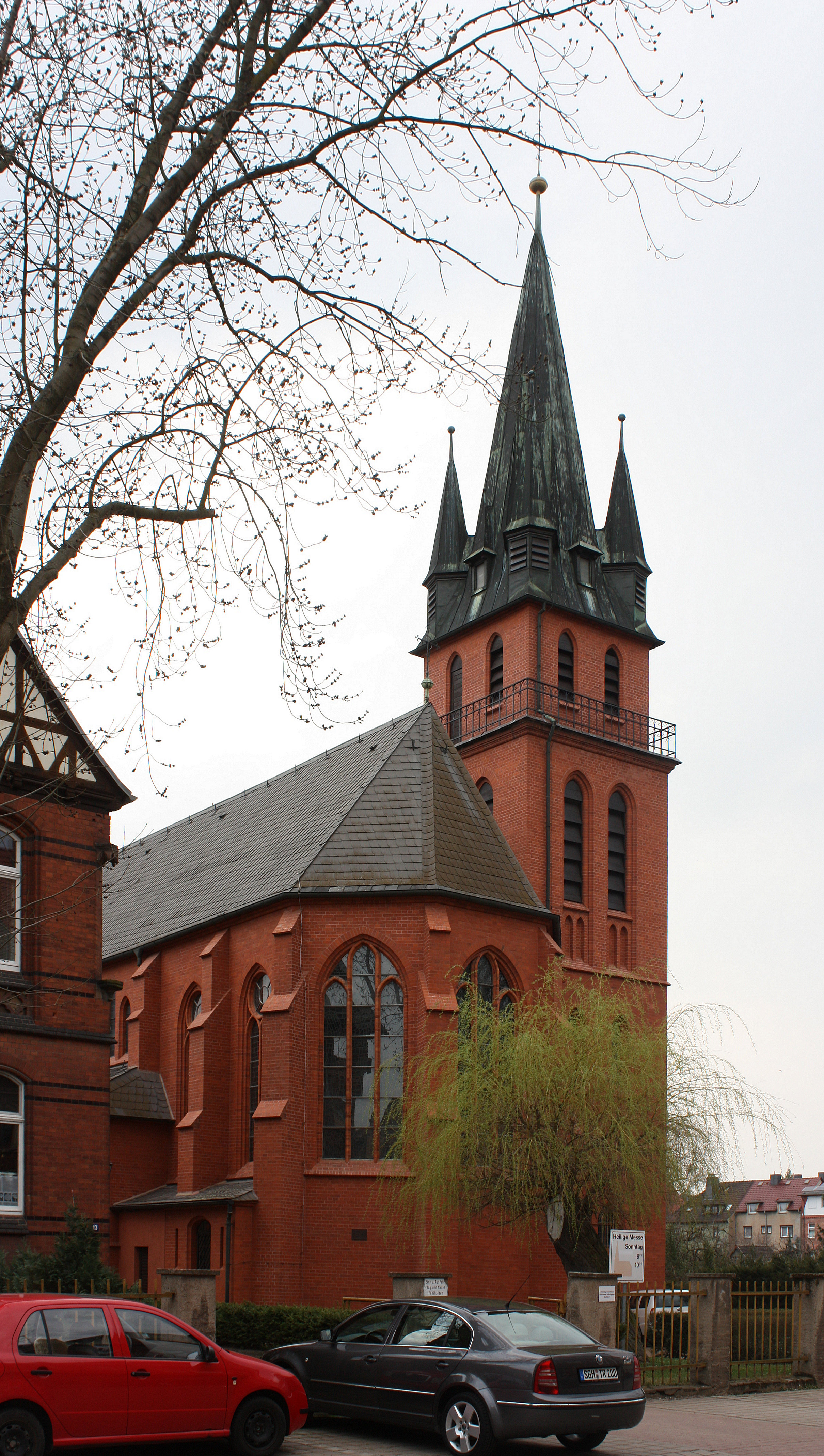 Sangerhausen, the Sacred Heart Church